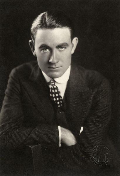 Actor Owen Moore in a Bangs Studio half-length portrait made in 1914.